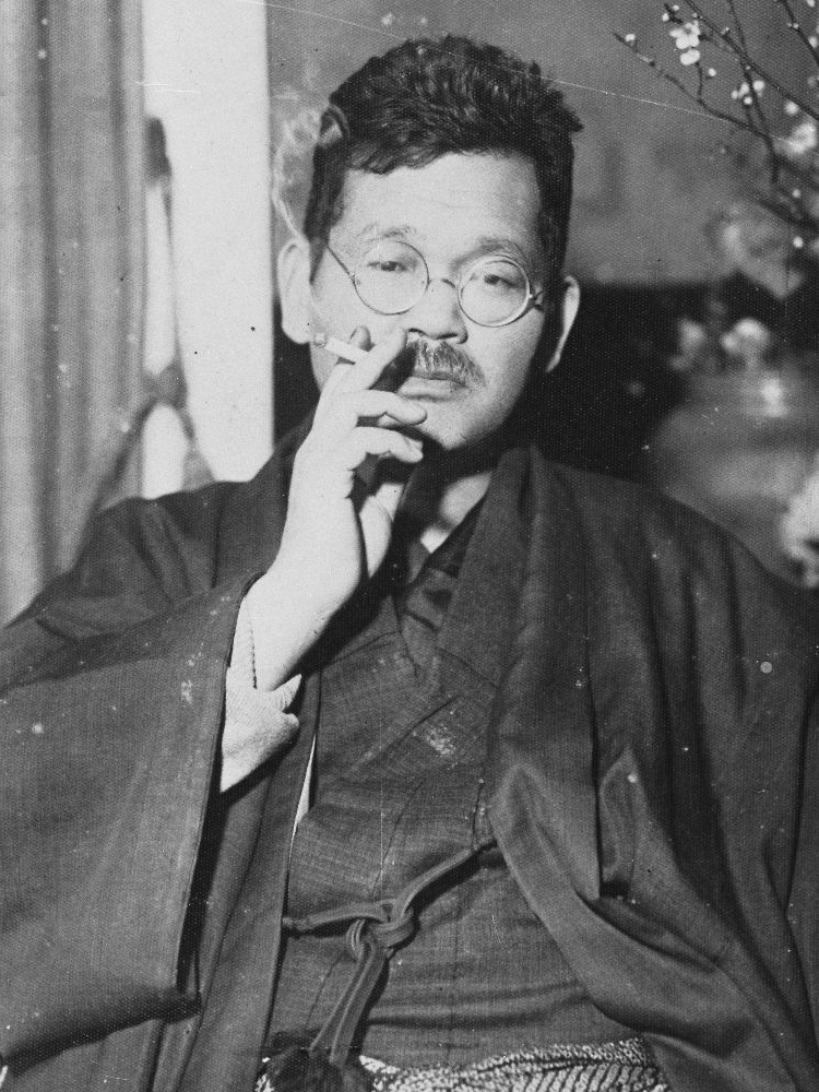 Photo of Japanese author Kan Kikuchi smoking. His real name is Hiroshi Kikuchi (1888-1948) and he was the founder of the publishing company Bungeishunjū.